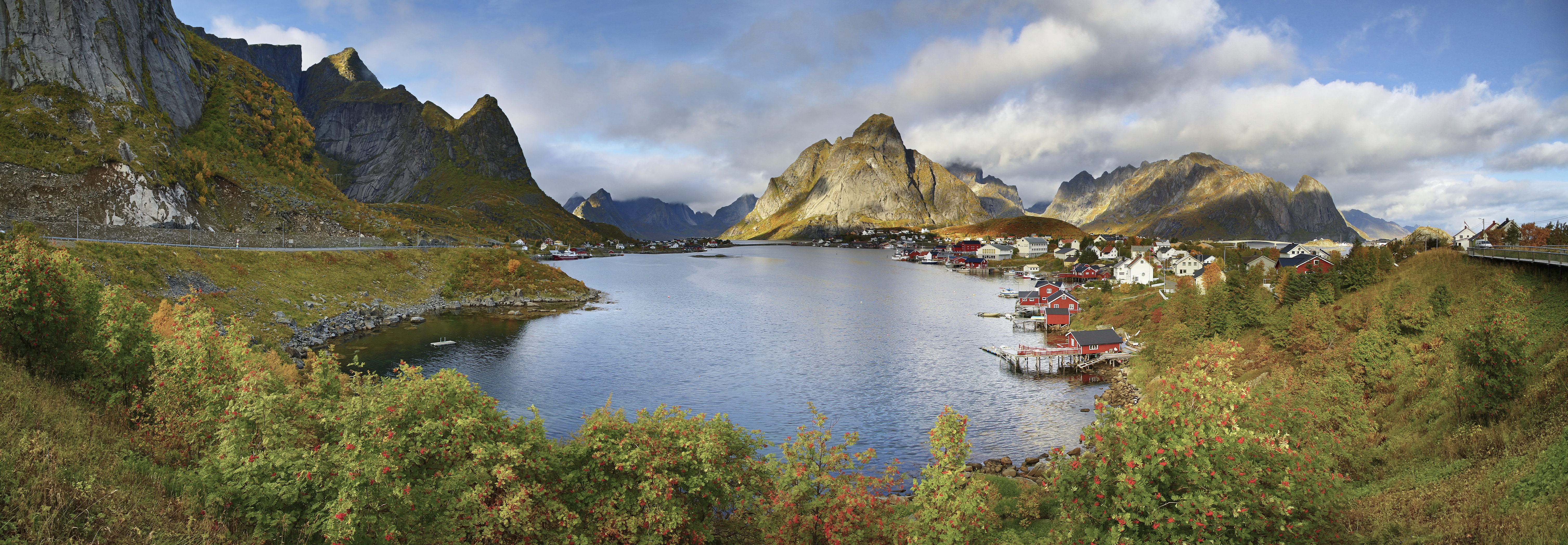 An autumn view at the village of Reine at Reinefjorden, Moskenesøya, Lofoten, Nordland, Norway in 2010 September.